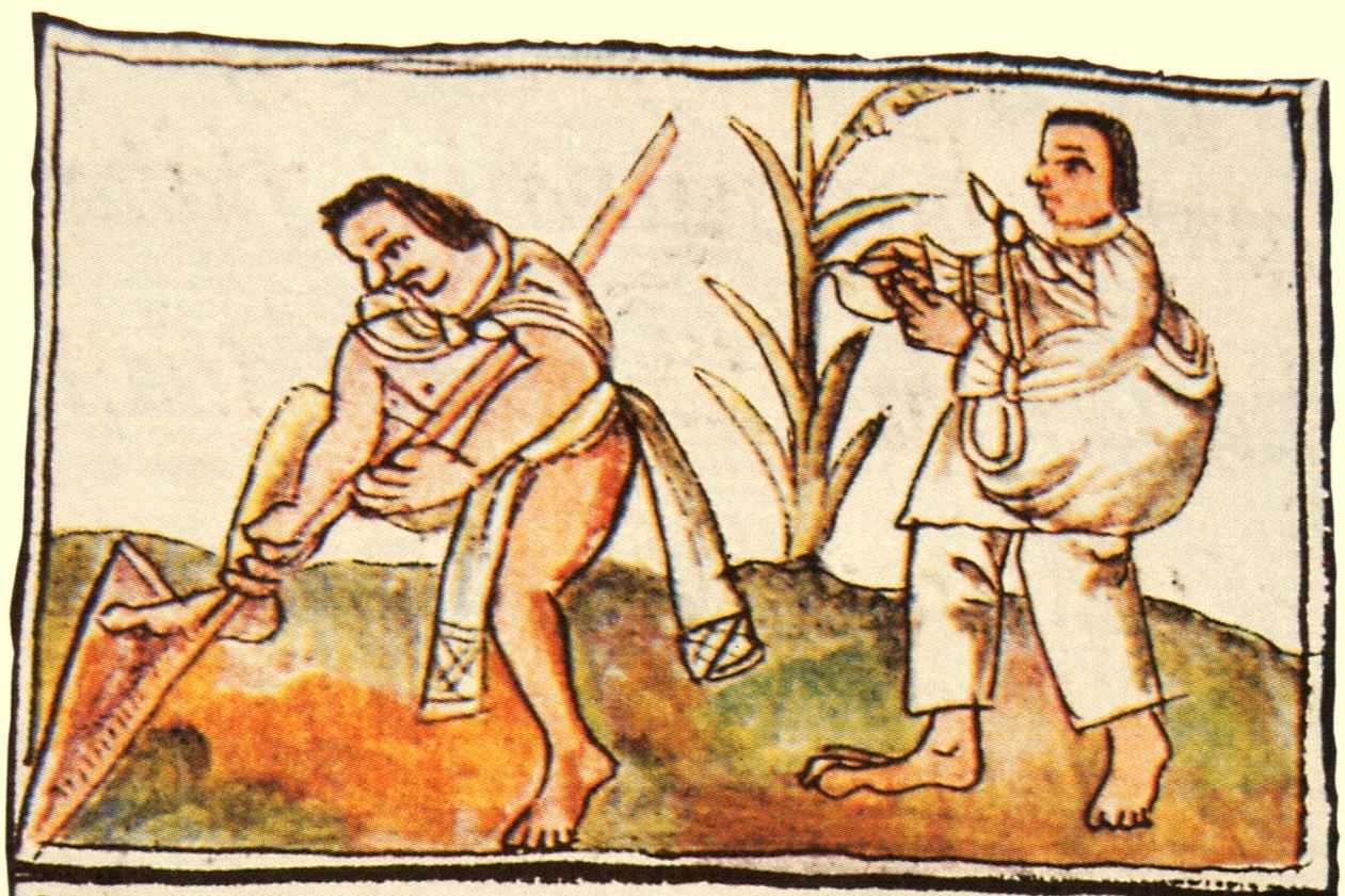 Using the Uictli like a shovel